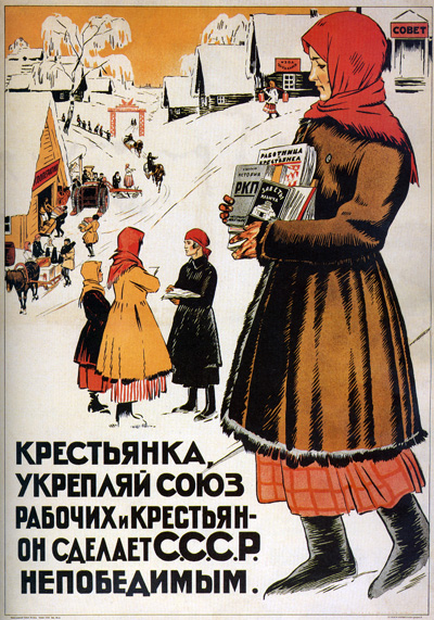 Soviet propoganda poster 1925